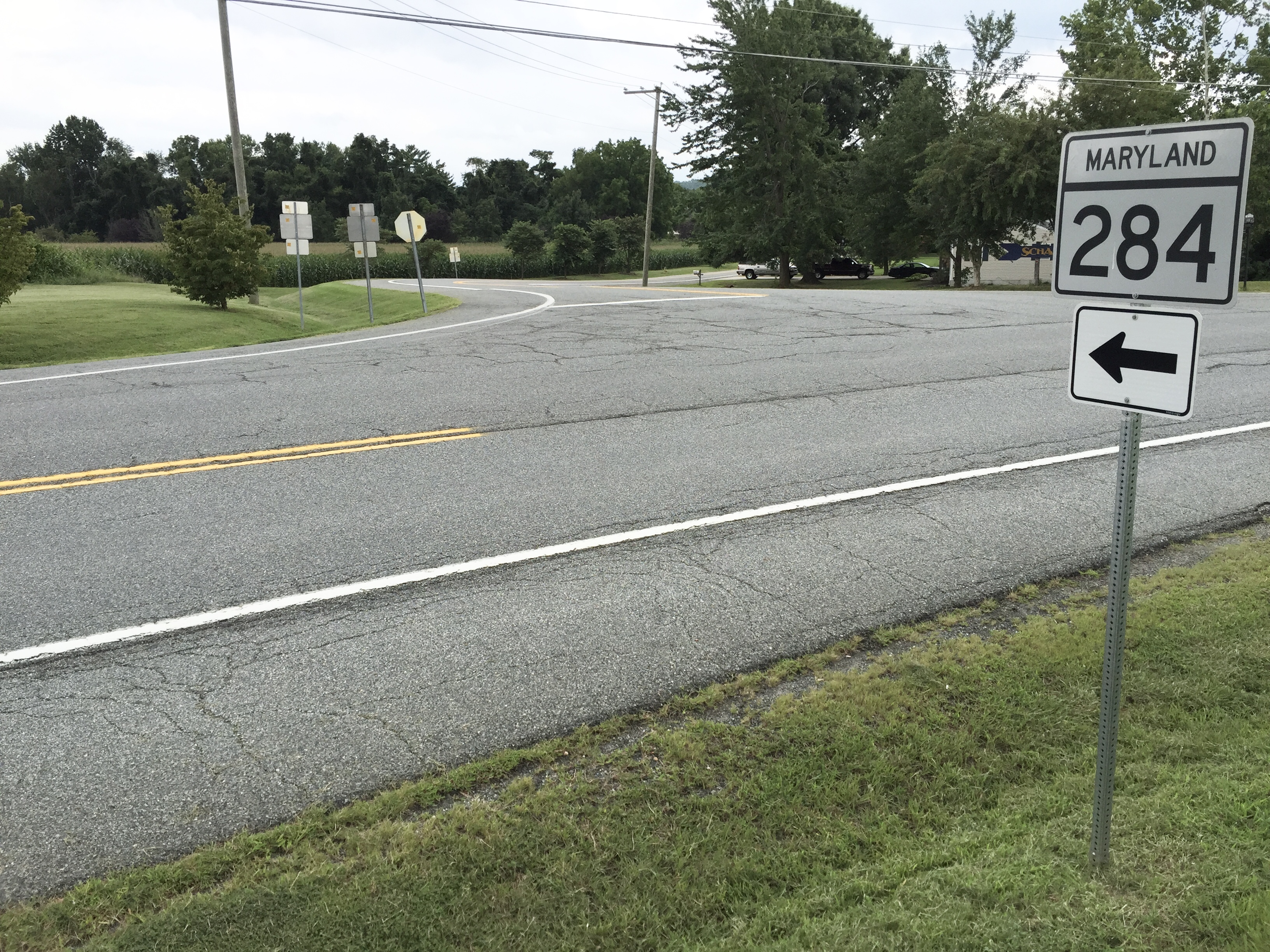 View south along Maryland State Route 284 (Hemphill Street) at Maryland State Route 285 (Lock Street) just north of Chesapeake City in Cecil County, Maryland